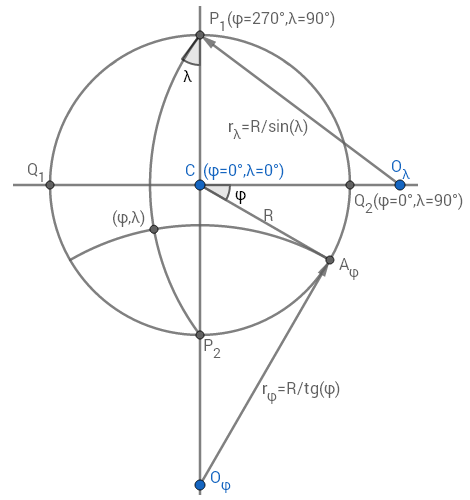 Graphing instructions